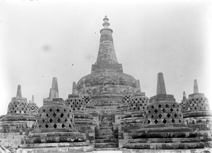 Negative. Central stupa at the top of Borobudur